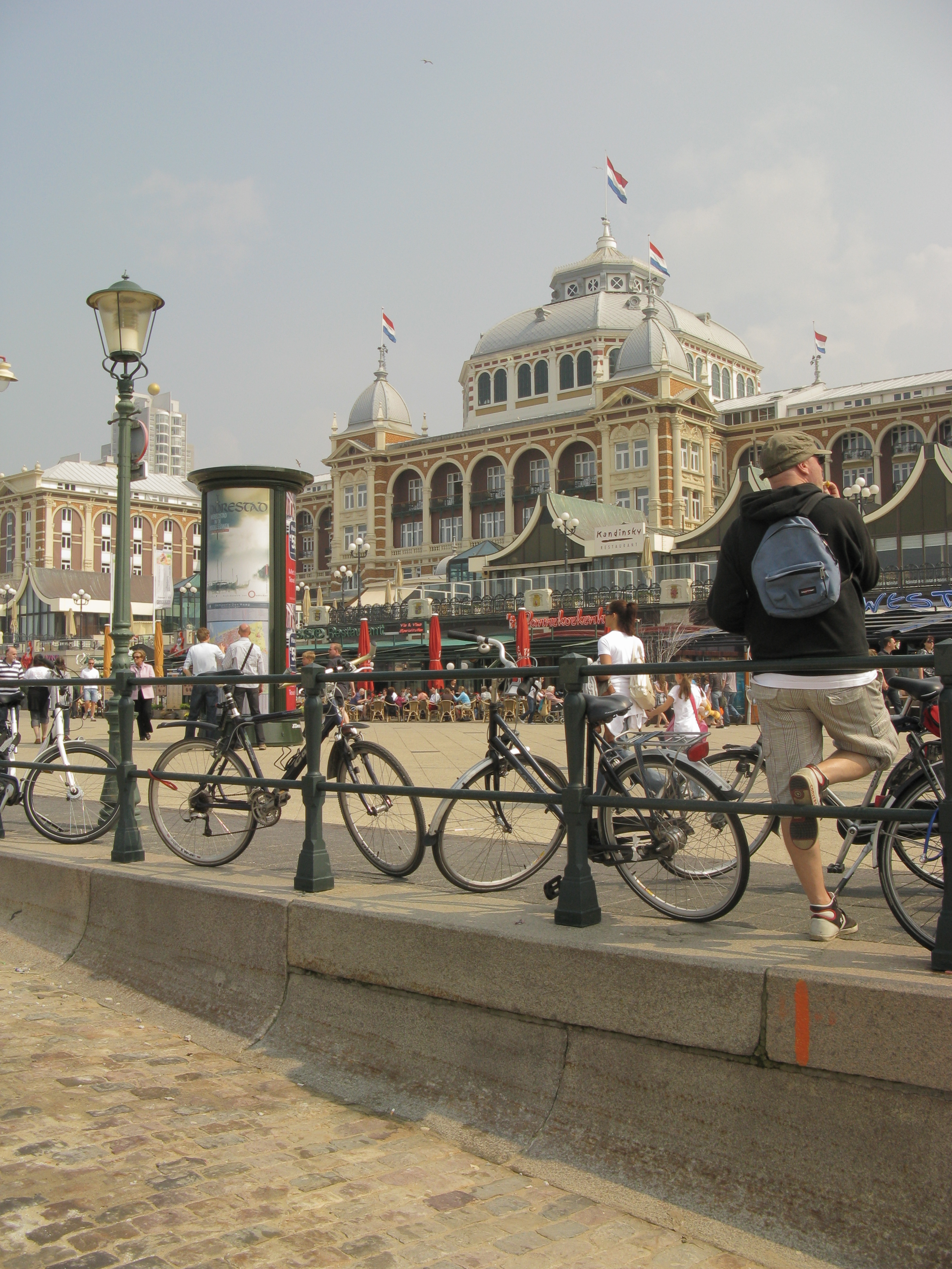 View of the Kurhaus in Scheveningen, The Netherlands, from behind the sea front railing.